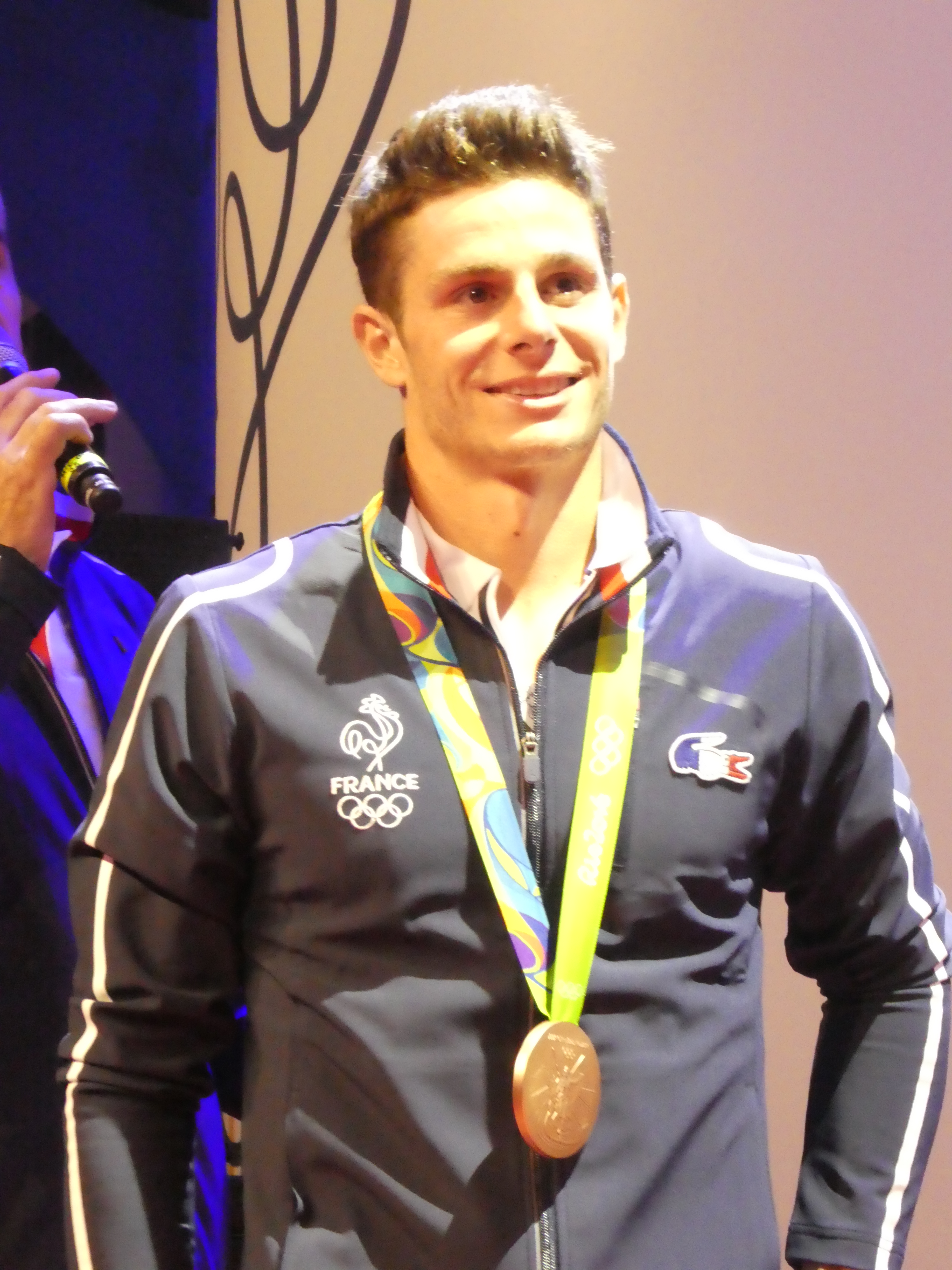 Gauthier Klauss bronze medalist at the 2016 Summer Olympics in canoeing